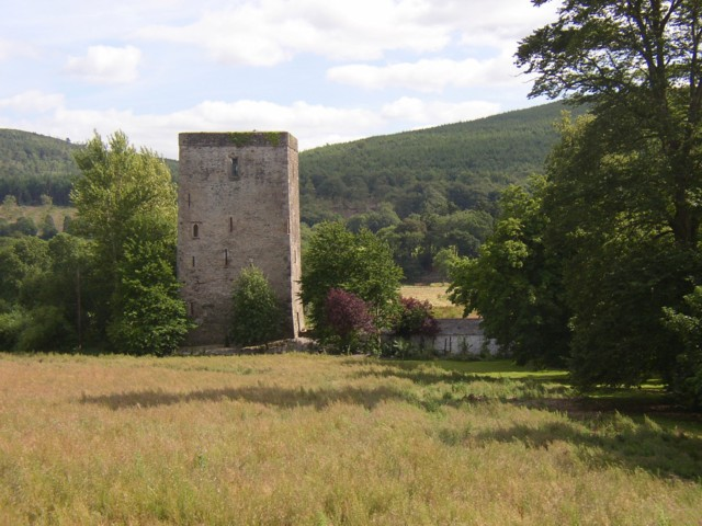 Poulakerry Castle, Kilsheelan, Co. Tipperary